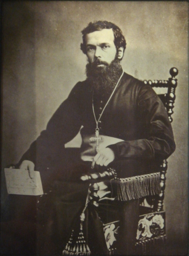 Mgr Bernard Petitjean - first Vica Apostolic of Japan